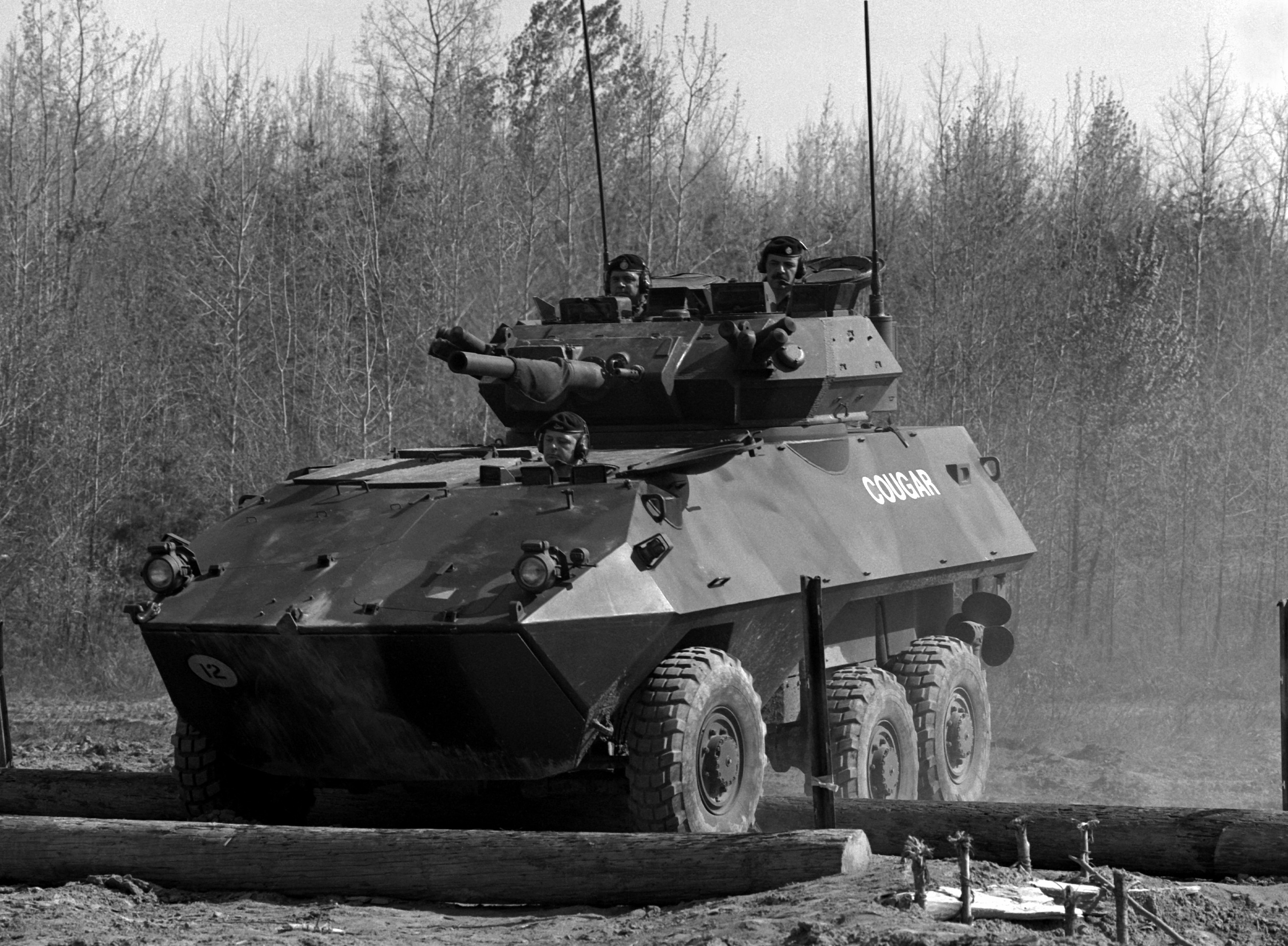 The Canadian armored vehicle general purpose (AVGP) doesn't have any problem going over obstacles during a mobility demonstration at the Murphy Demonstration Area. Location: MARINE CORPS DEV&EC, QUANTICO, VIRGINIA (VA) UNITED STATES OF AMERICA (USA)